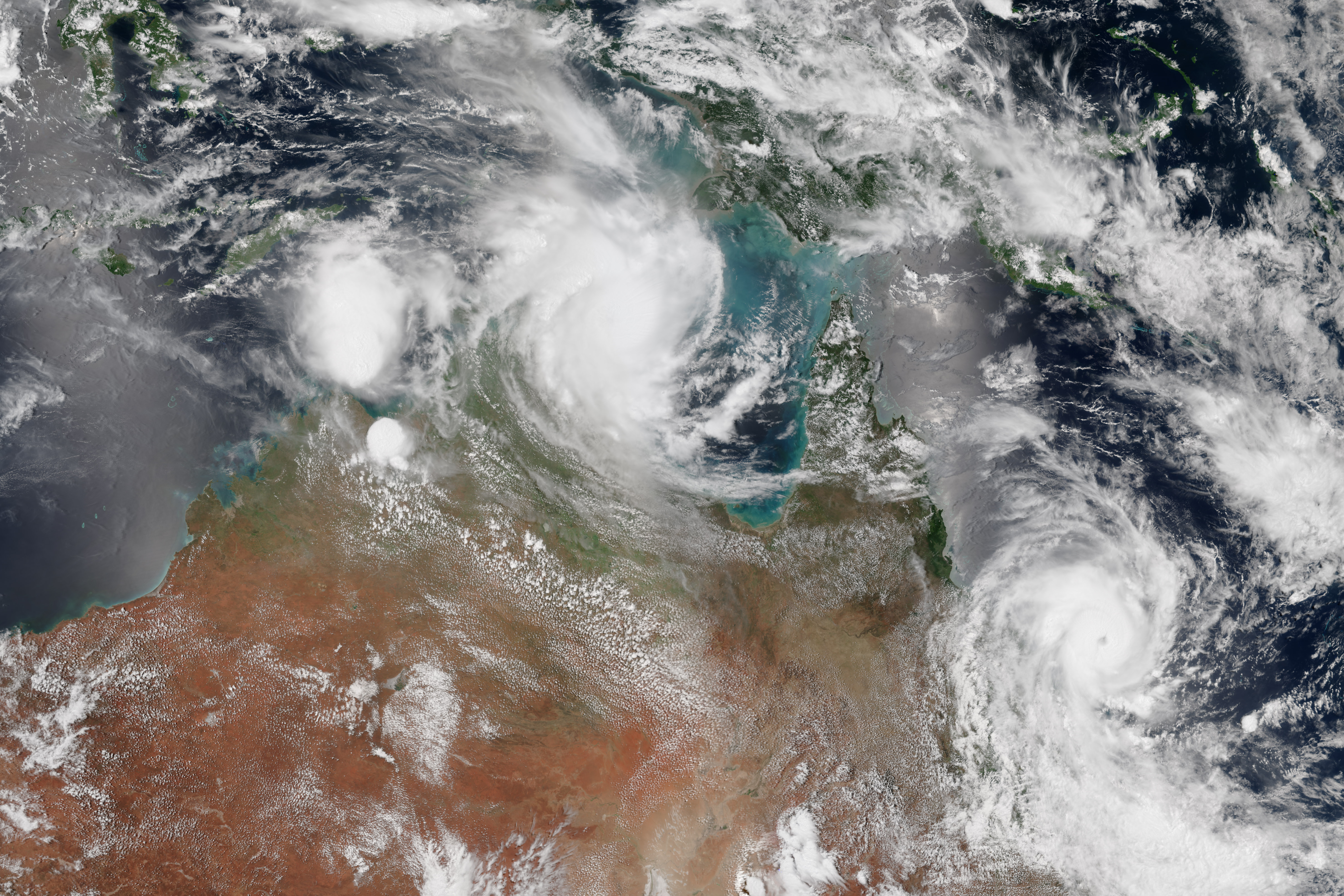 Northern Australia was battered by two potent tropical cyclones within six hours on the same day in February 2015. Cyclone Lam made landfall on the north-central coast near Milingimbi (about 400 kilometers east of Darwin) around 2 a.m. Australian central time on February 19. Cyclone Marcia made landfall on the east coast of Queensland near Rockhampton and Yeppoon around 8 a.m. local time on February 19. At landfall, Lam had estimated wind speeds of approximately 165 kilometers (105 miles) per hour; Marcia came ashore with winds of 205 kilometers (125 miles) per hour. Marcia briefly reached category 5, only the sixth storm of that strength since records have been kept in Australia. According to meteorologist and blogger Jeff Masters, few major cyclones have made it so far south (around latitude 22°S) down the Australian coast. The Visible Infrared Imaging Radiometer Suite on the Suomi NPP satellite captured this view of the two storms around midday on February 19, 2015. The image is a composite of satellite data from two Suomi NPP passes over the area. As of February 20, no deaths had been reported from the storm, though damage assessments were still to be made in many of the remote towns. Water and power were lost in several areas hit by Lam. Power was knocked out by Marcia for at least 50,000 homes in Queensland.